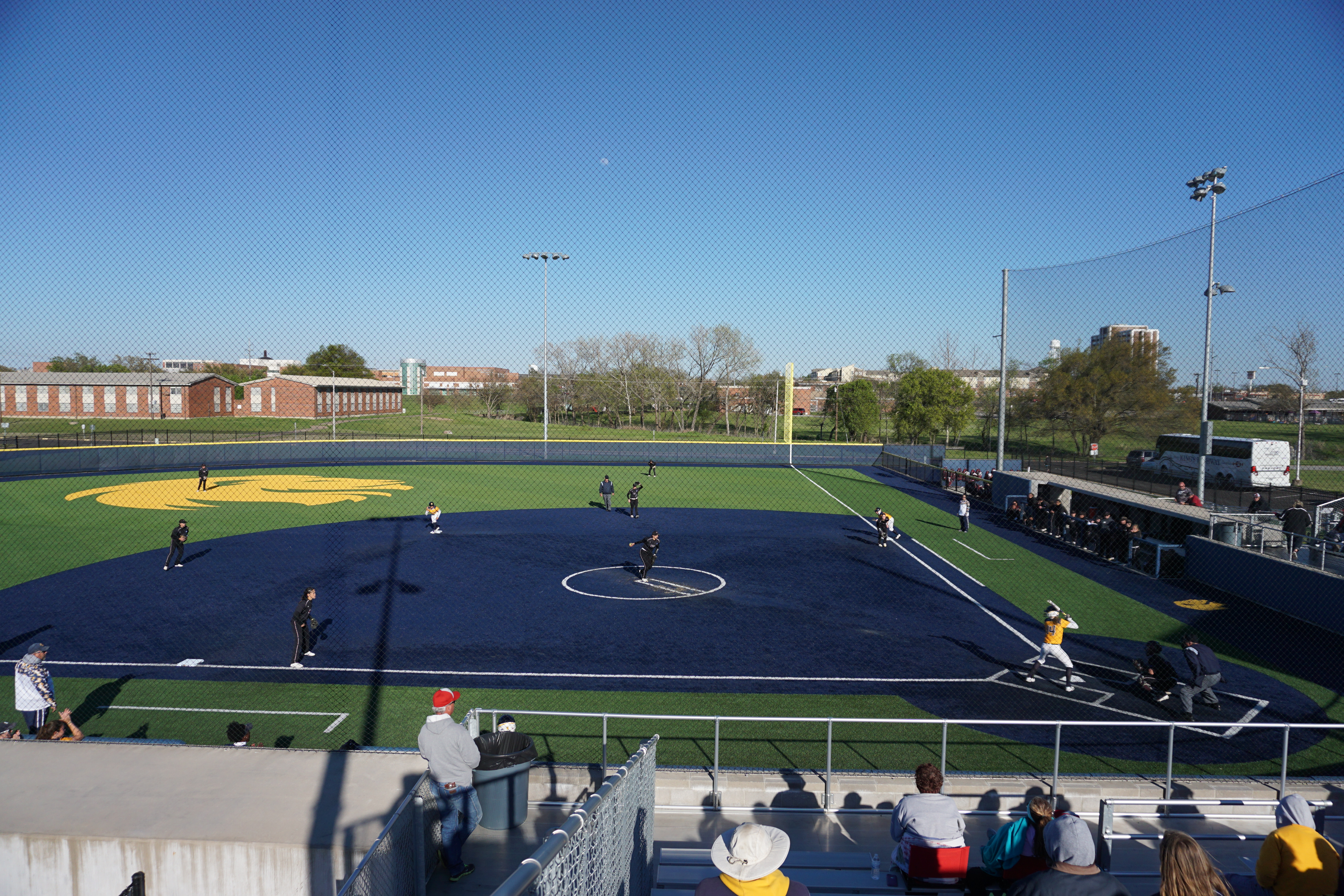 In-game action during the second game of the West Texas A&M Lady Buffs vs. Texas A&M–Commerce Lions softball doubleheader at the John Cain Family Softball Field in Commerce, Texas (United States). A&M–Commerce won the first game 6–4 and West Texas A&M won the second game 5–2.